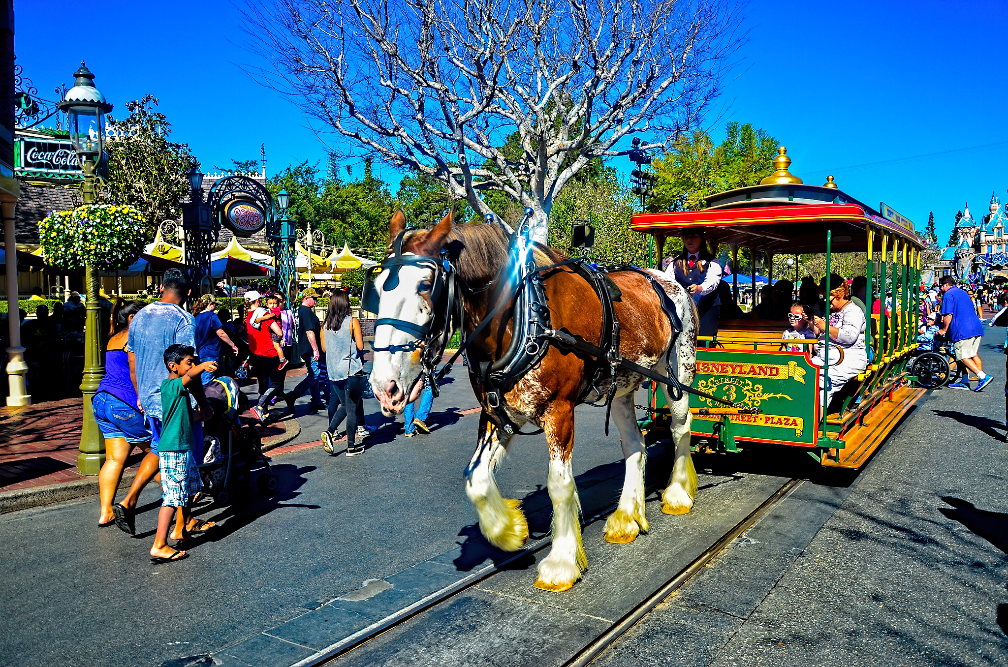 TDelCoro February 15, 2016